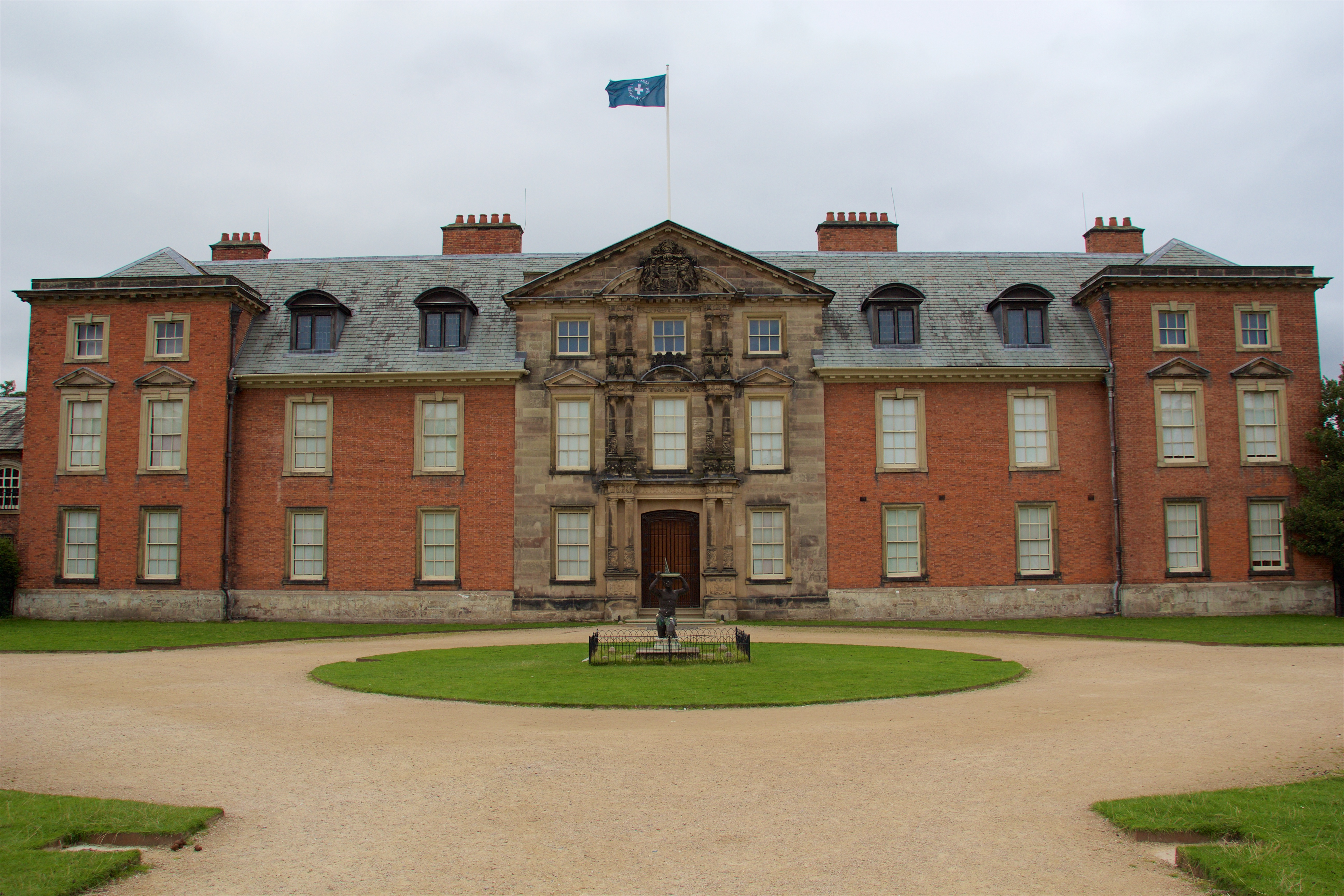 Dunham Massey Hall, United Kingdom